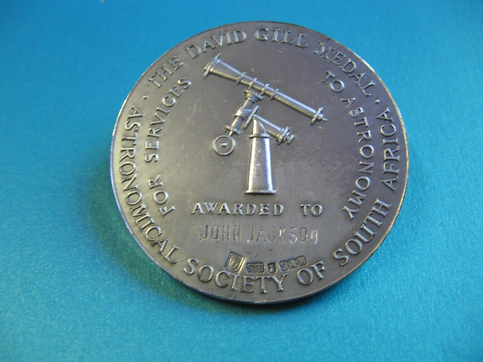 This file was uploaded as part of a GLAMWiki partnership with Paisley Museum. You can find out more on the Museums Galleries Scotland project page. This tag does not indicate the copyright status of the attached work. A normal copyright tag is still required. See Commons:Licensing for more information.